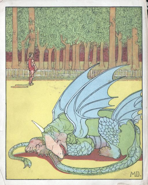 Illustration from "All the Way to Fairyland"